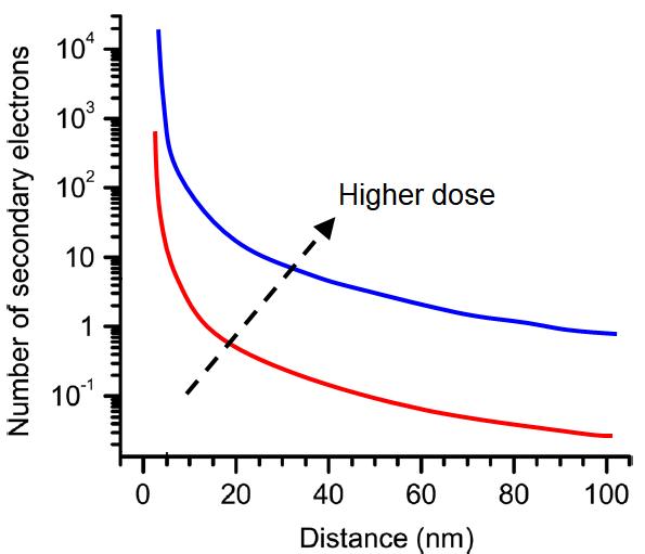 The radial spread of secondary electrons from a point source increases with dose. Ref.: A. Raghunathan and J. G. Hartley, JVST B 31, 011605 (2013).